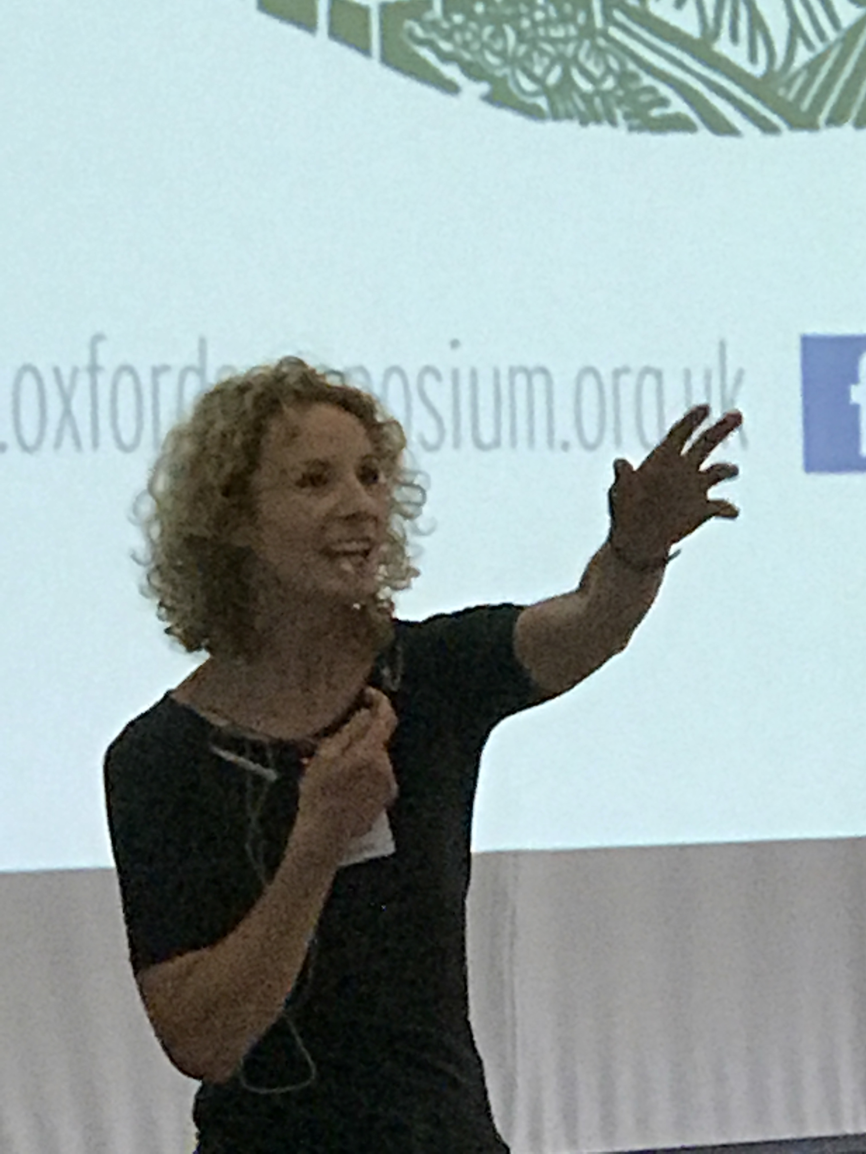 This picture was taken and uploaded by Andrew D. (talk) 08:27, 8 July 2017 (UTC)